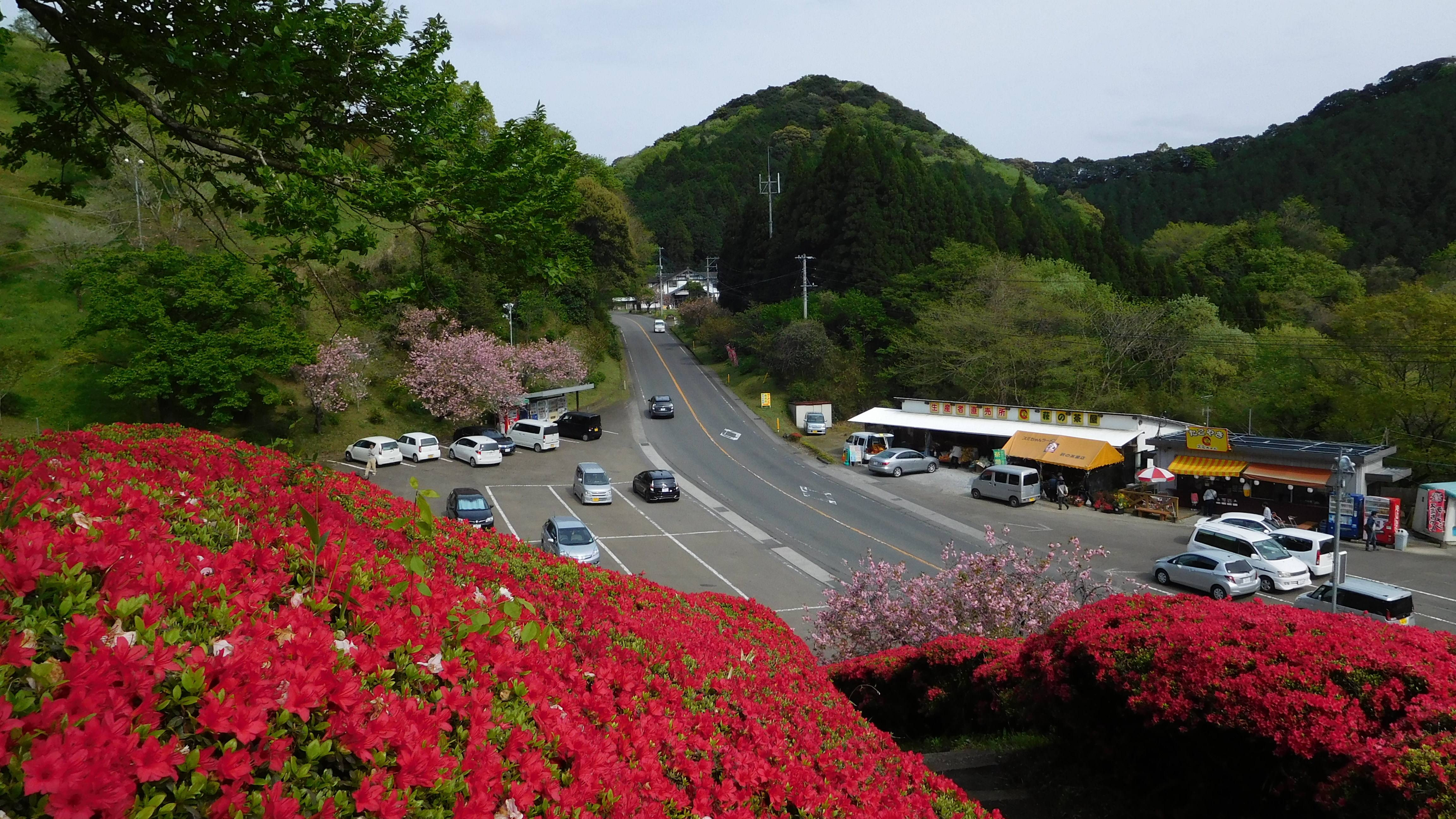 Rhododendron gardens at Hagi-no-chaya in Nojiri, Kobayashi City, Miyazaki, Japan.